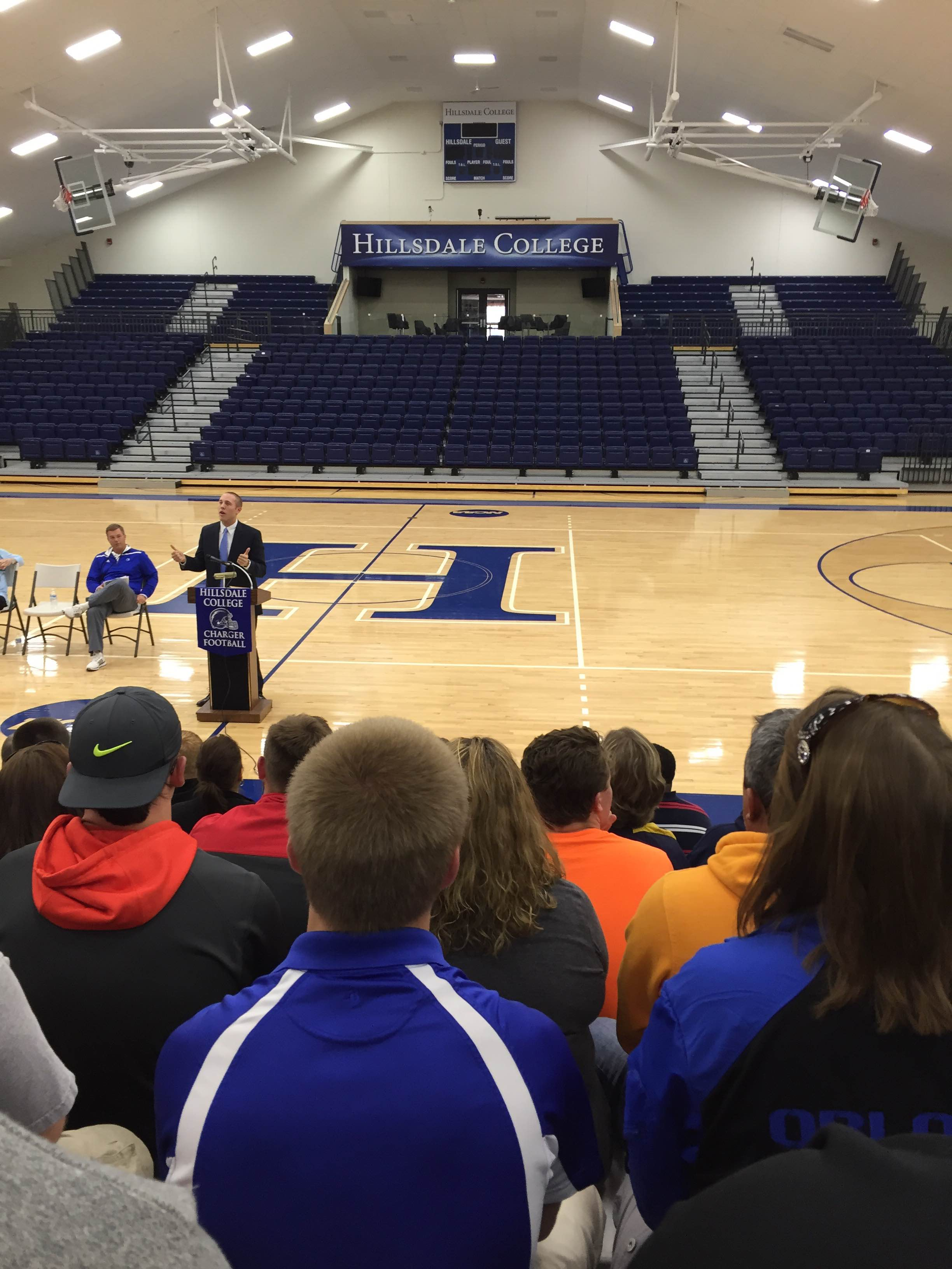 The home side in the Dawn Tibbetts Potter Arena on the campus of Hillsdale College. This is after the 2014 renovation.